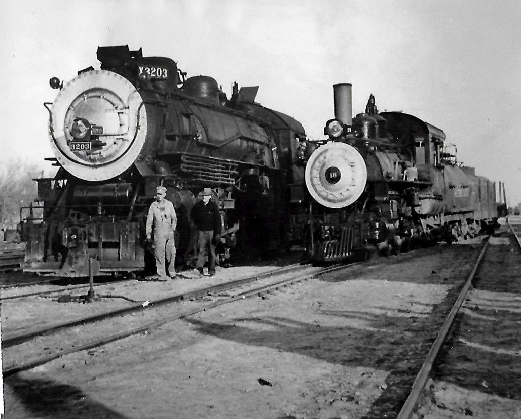 Photo of Southern Pacific standard gauge locomotive #3203 and narrow gauge locomotive #18 at Owenyo, California where the two SP lines met. The photo was taken in 1953. The uploaded photo is a better copy of the newsprint one. Searches were done at for Corpus Christi Caller-Times and Wide World Photos. There were no renewal listings for either; there's no evidence of current copyright.